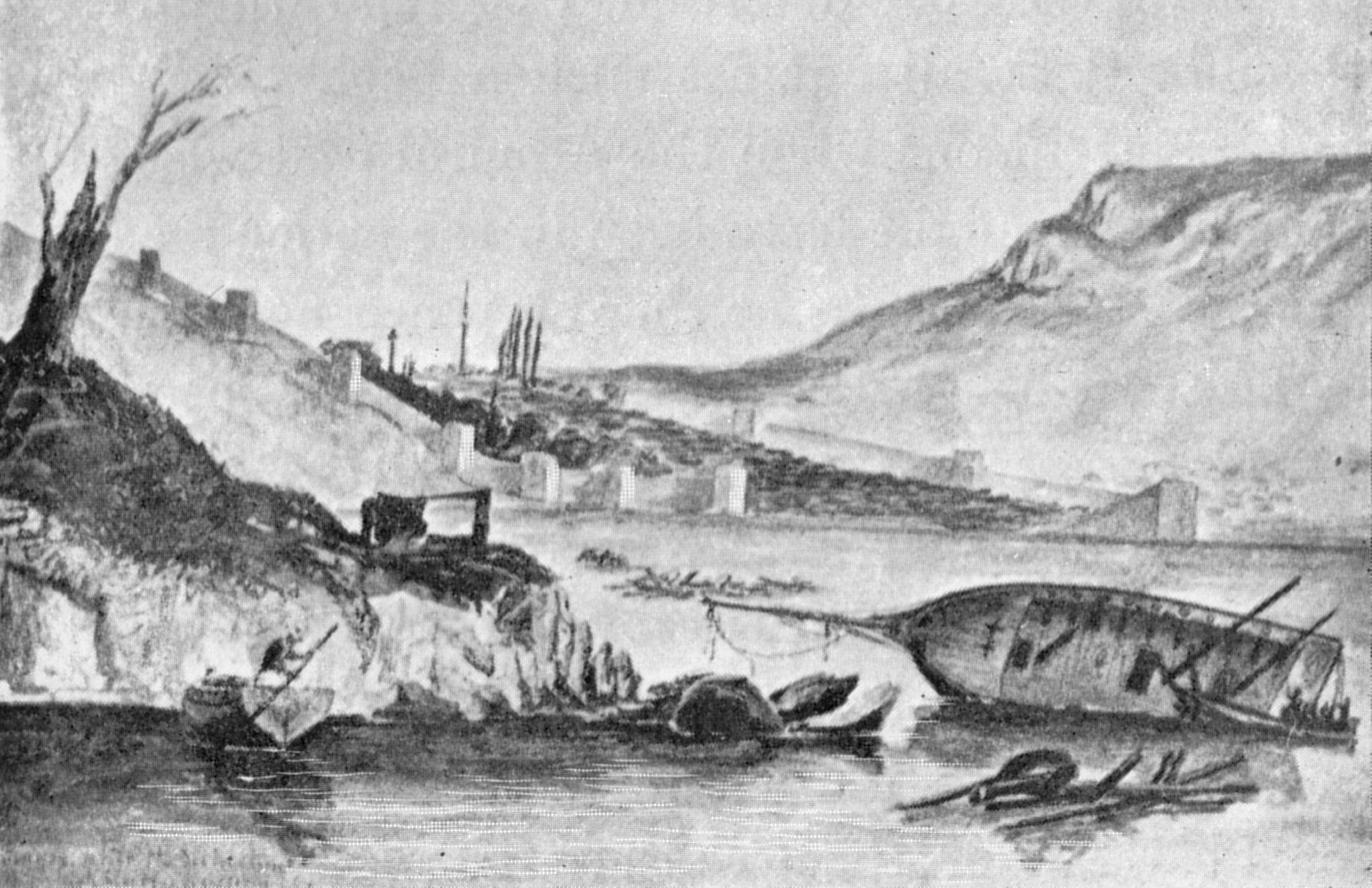 Drawing of sinope bay by George Tryon who visited onboard HMS Vengeance after the battle where the russian fleet destroyed anchored turkish ships.